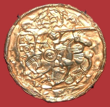 Gold bracteate from Pleizhausen, Germany, 6th or 7th century. Depiction of the "horse-stabber underhoof" scene, adapted from Roman era gravestones of members of the Roman cavalry. Descriptions: Michael Speidel, Ancient Germanic warriors: warrior styles from Trajan's column to Icelandic sagas, Routledge, 2004, ISBN 9780415311991, p. 162. Harald Kleinschmidt, People on the move: attitudes toward and perceptions of migration in medieval and modern Europe, Greenwood Publishing Group, 2003, ISBN 9780275974176, p. 66.